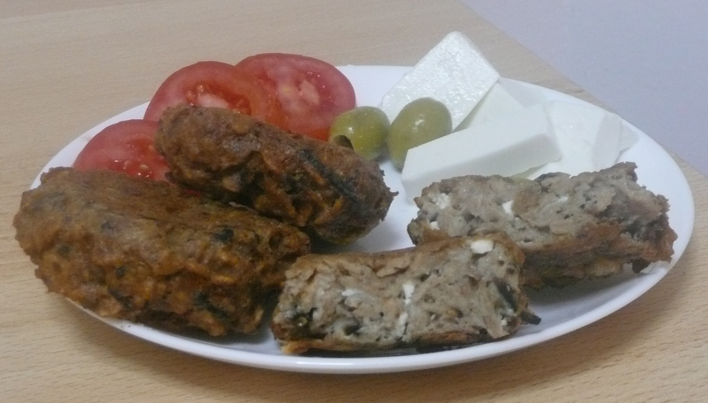 bunuelos for passover. the product and the photo were self-made by the uploader of the file.